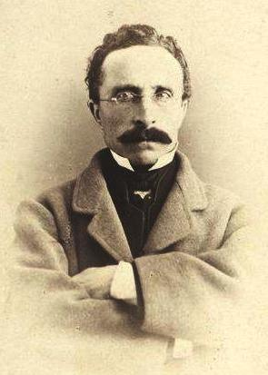 Onofrio Abbate's portrait.